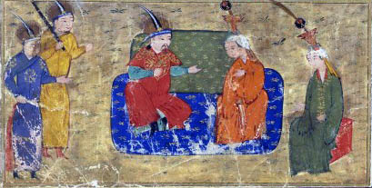 Tolui and his family.